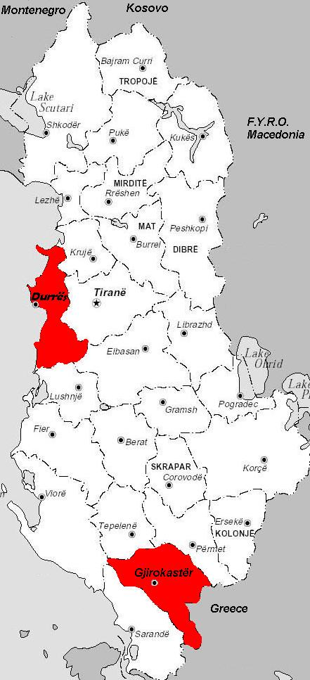 The Swine flu spread in Albania, as of July, 25th.